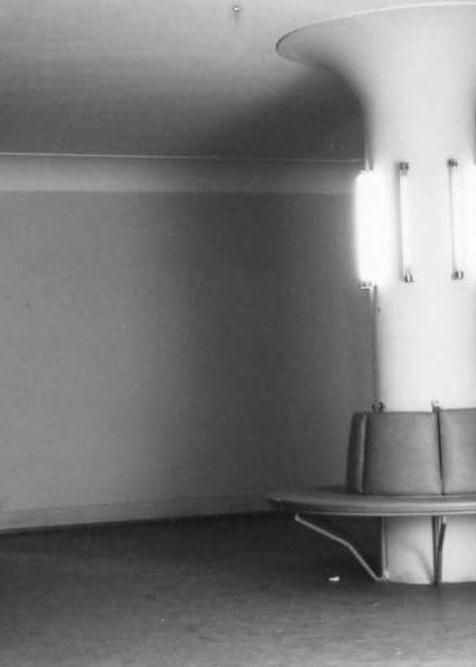 Heilbronn Theater